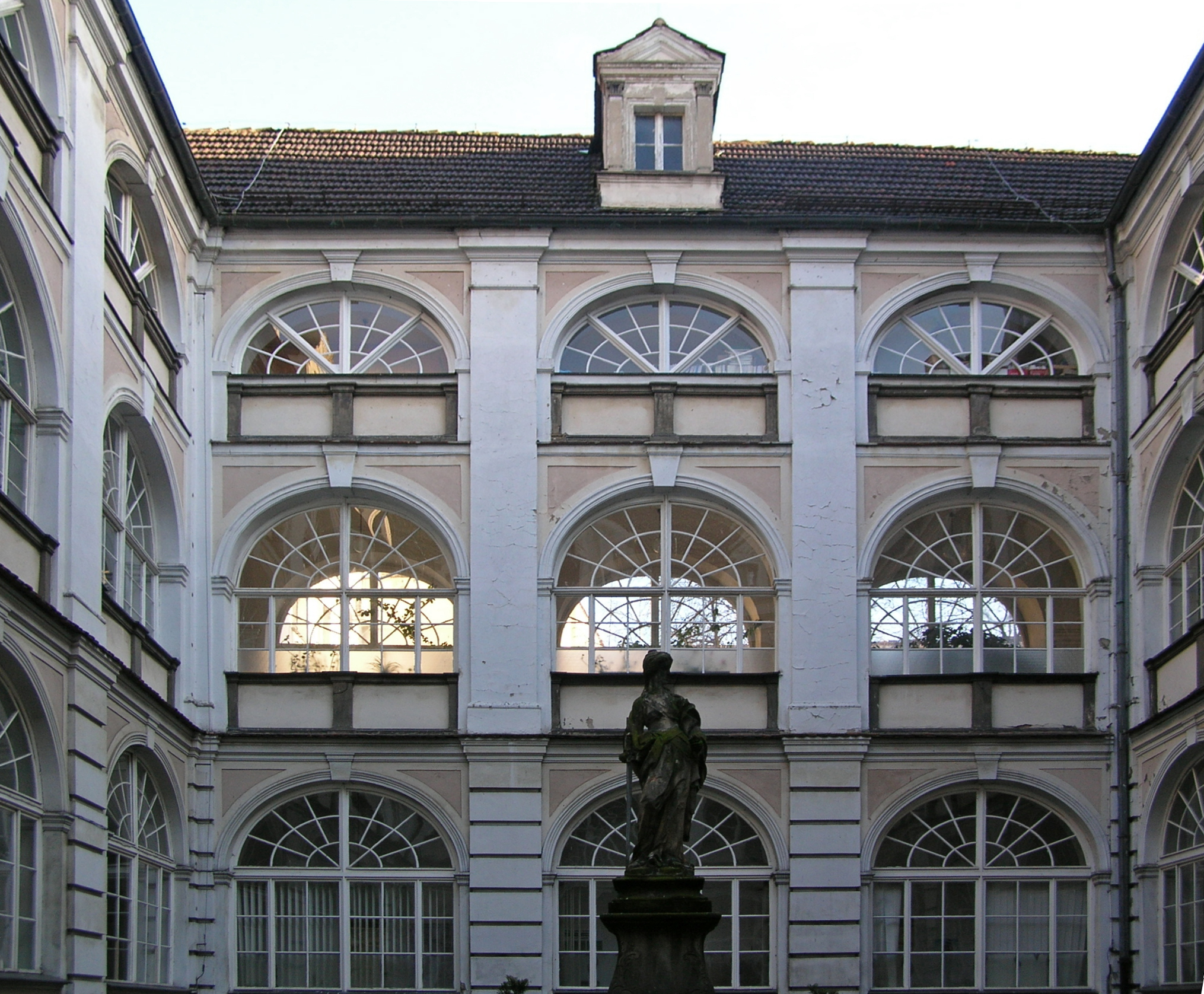 Wroclaw University, Collegium Anthropologicum courtyard